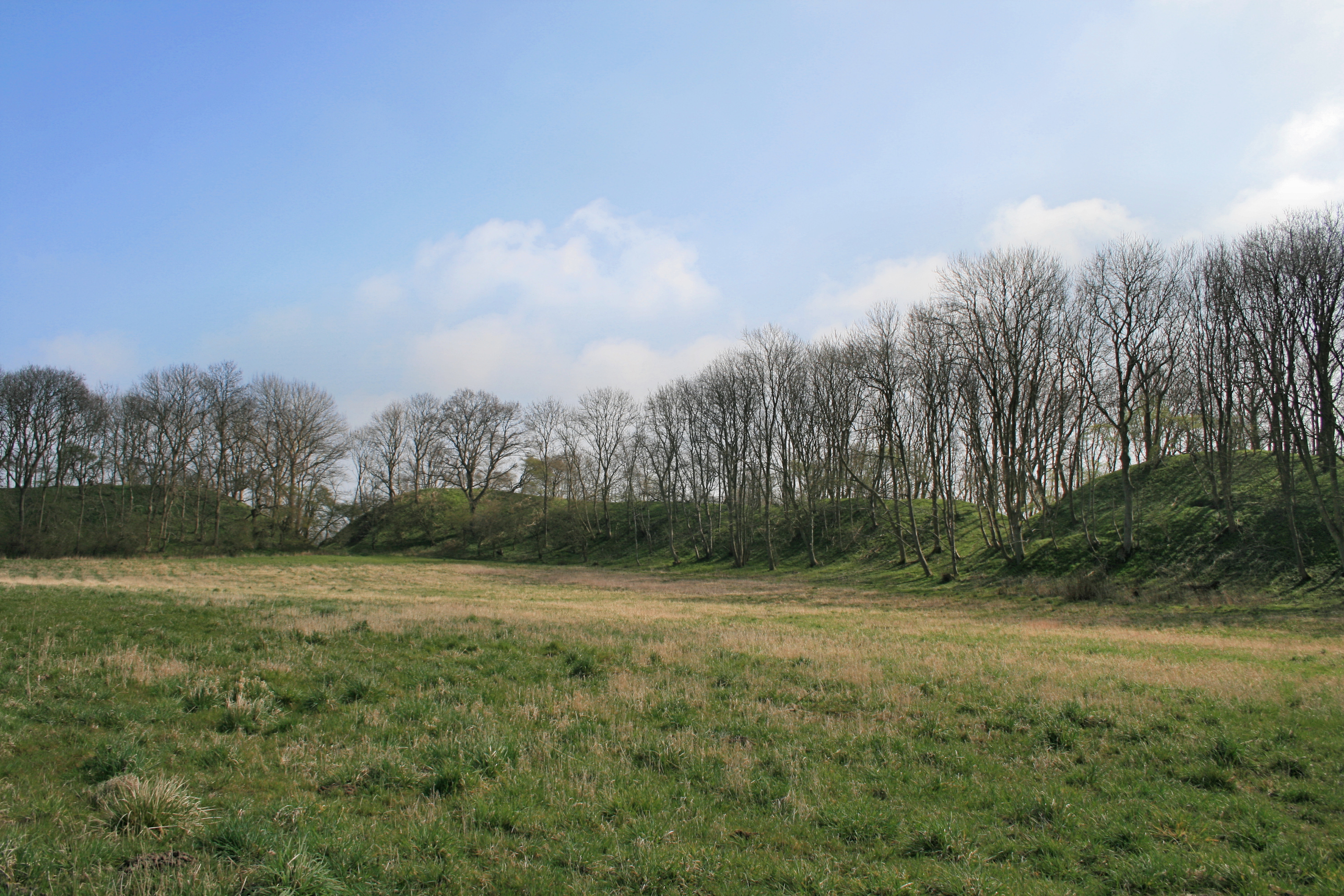 Venzer Burgwall was a slavic burgh on the island of Rügen (Charenza)